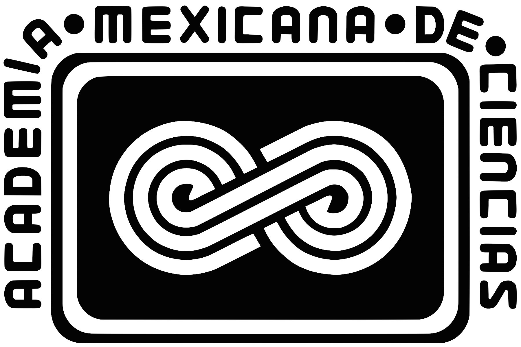 Mexican Academy of Sciences